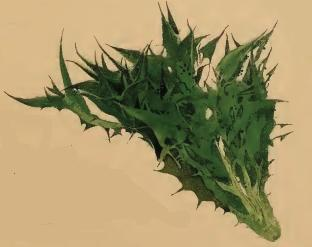 Stainton’s Natural History of the Tineina (1855–1873): Agonopterix cnicella a shoot of Eryngium campestre attacked by larva